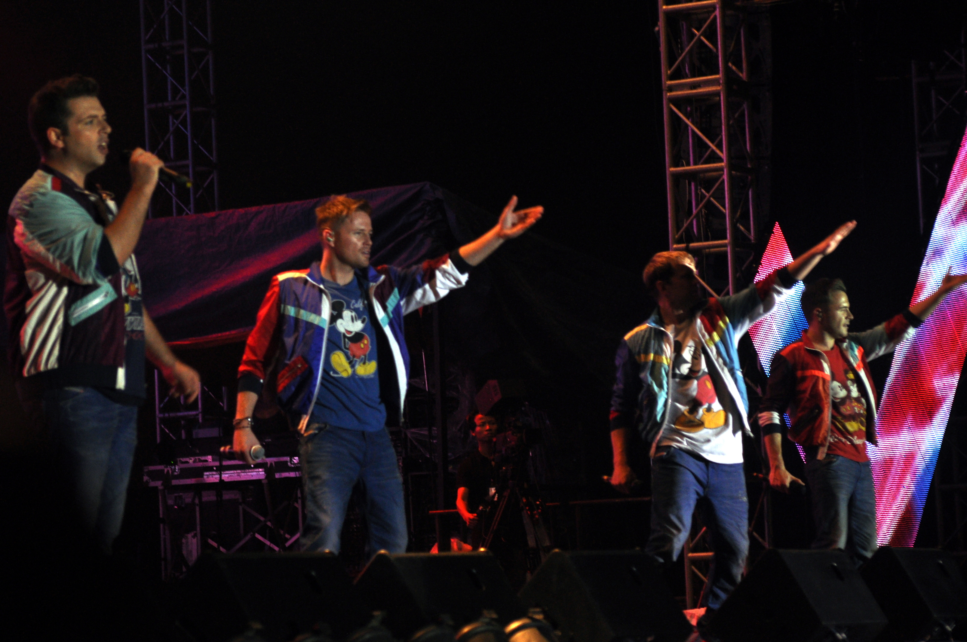 Westlife performing live on Gravity Tour in October 2011 in Hanoi, Vietnam